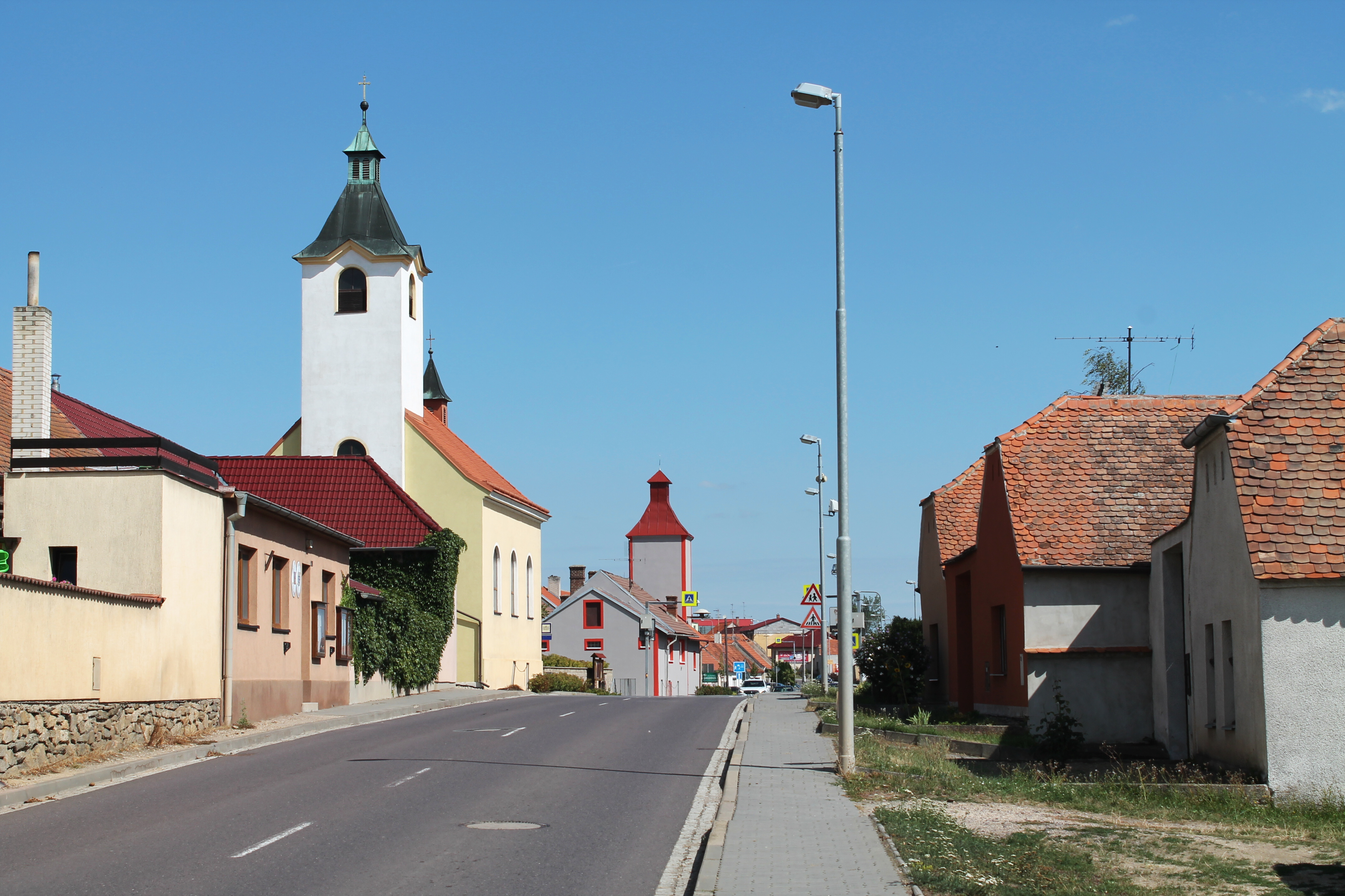 Church of Saint Florian, Kuchařovice, Znojmo District, Czech Republic